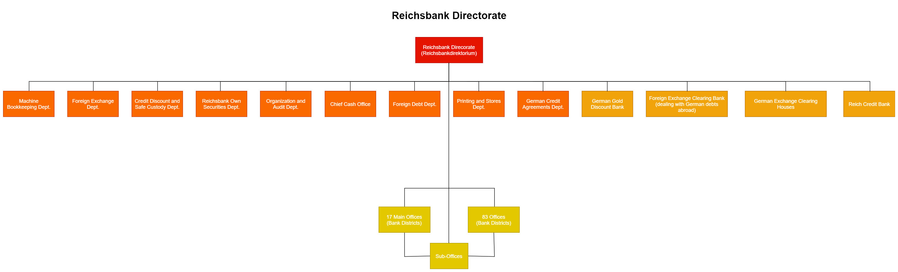 Nazi Germany Reichsbank Directorate. Based on: United States. 1945. Organization charts of the German ministries and central agencies.